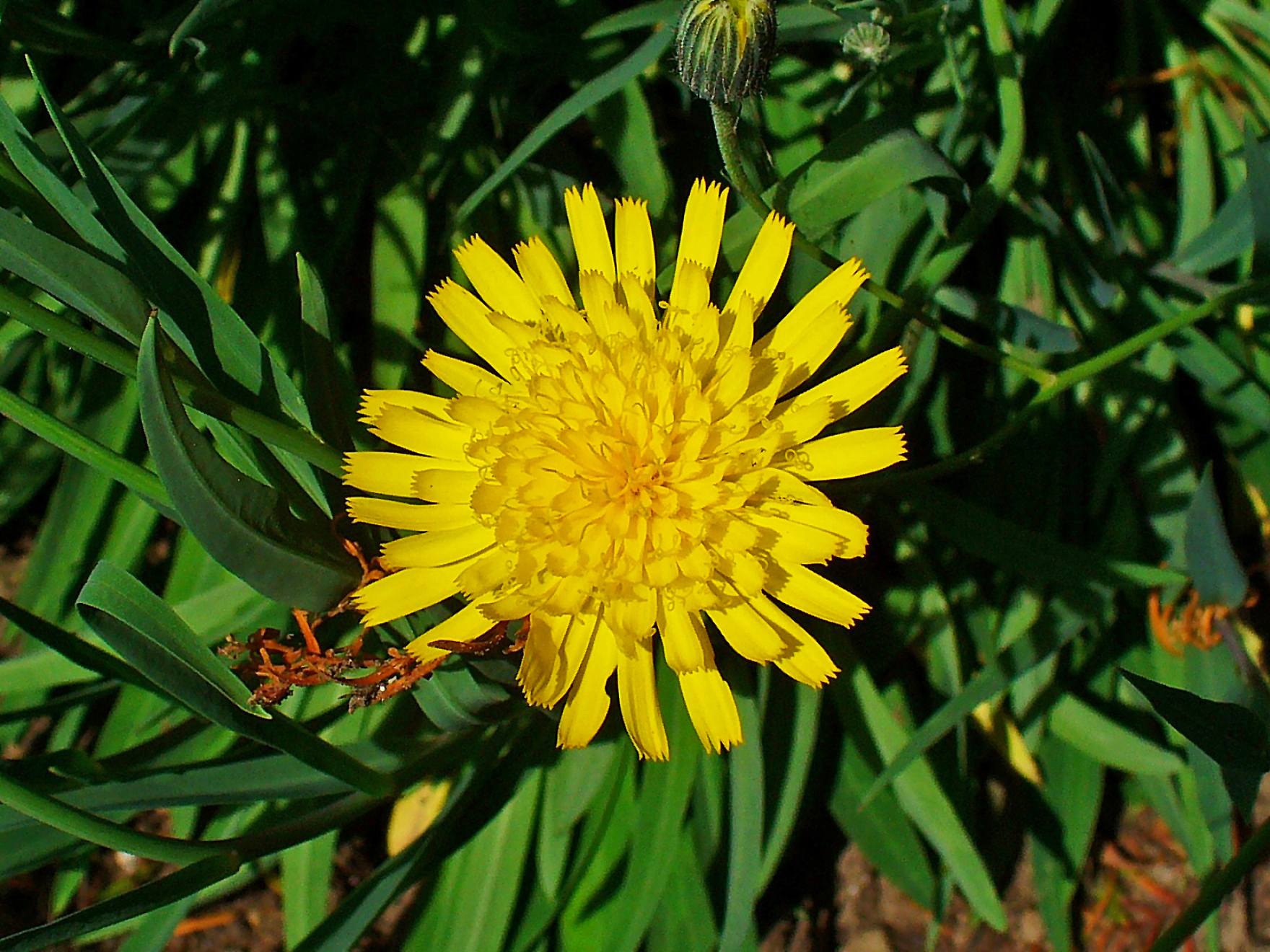 Hieracium bupleuroides, Asteraceae, Hare-ear Hawkweed, inflorescence; Botanical Garden KIT, Karlsruhe, Germany.